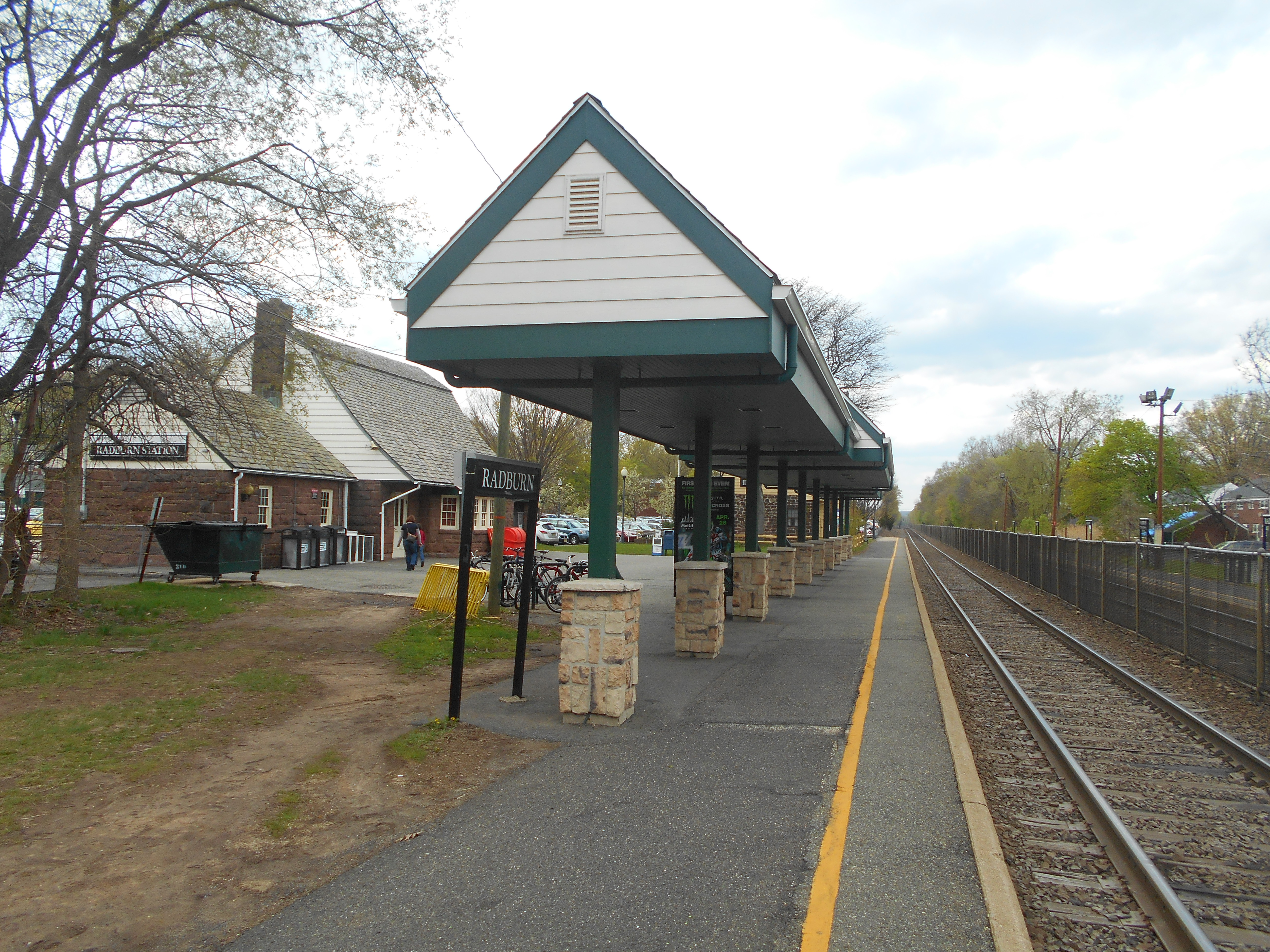 The Radburn New Jersey Transit station in Fair Lawn, New Jersey.